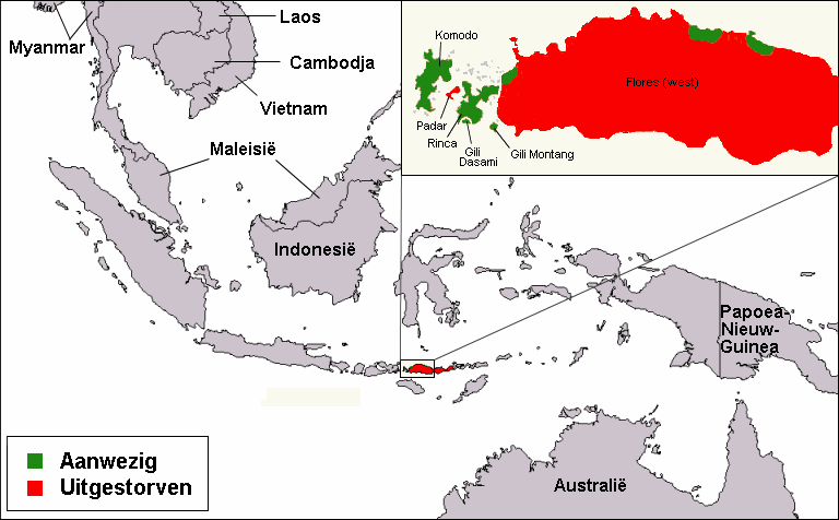 Commons:Category:Varanus komodoensis Commons:Category:Distribution maps